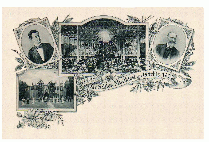 Old postcard.